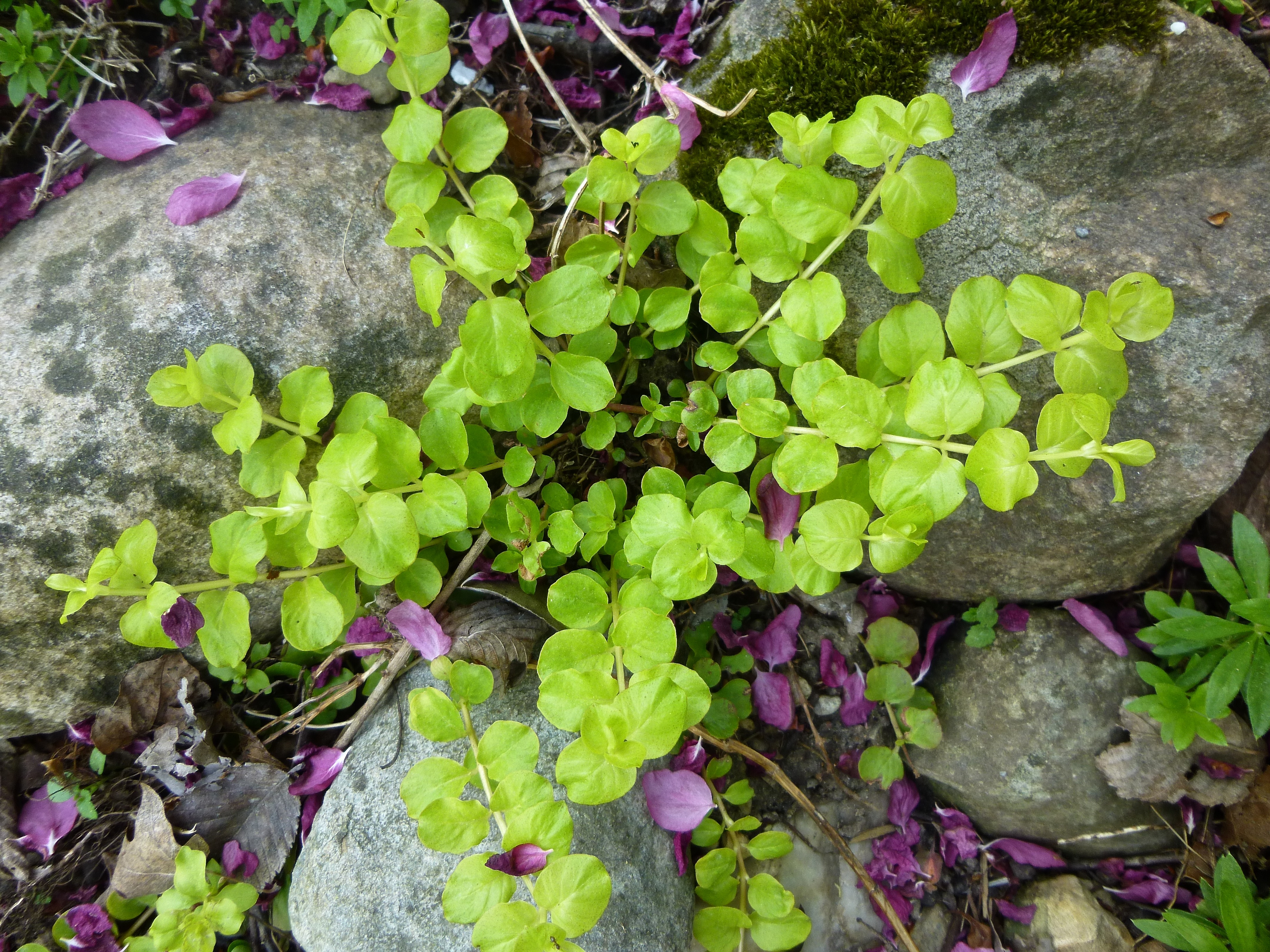 Lysimachia nummularia